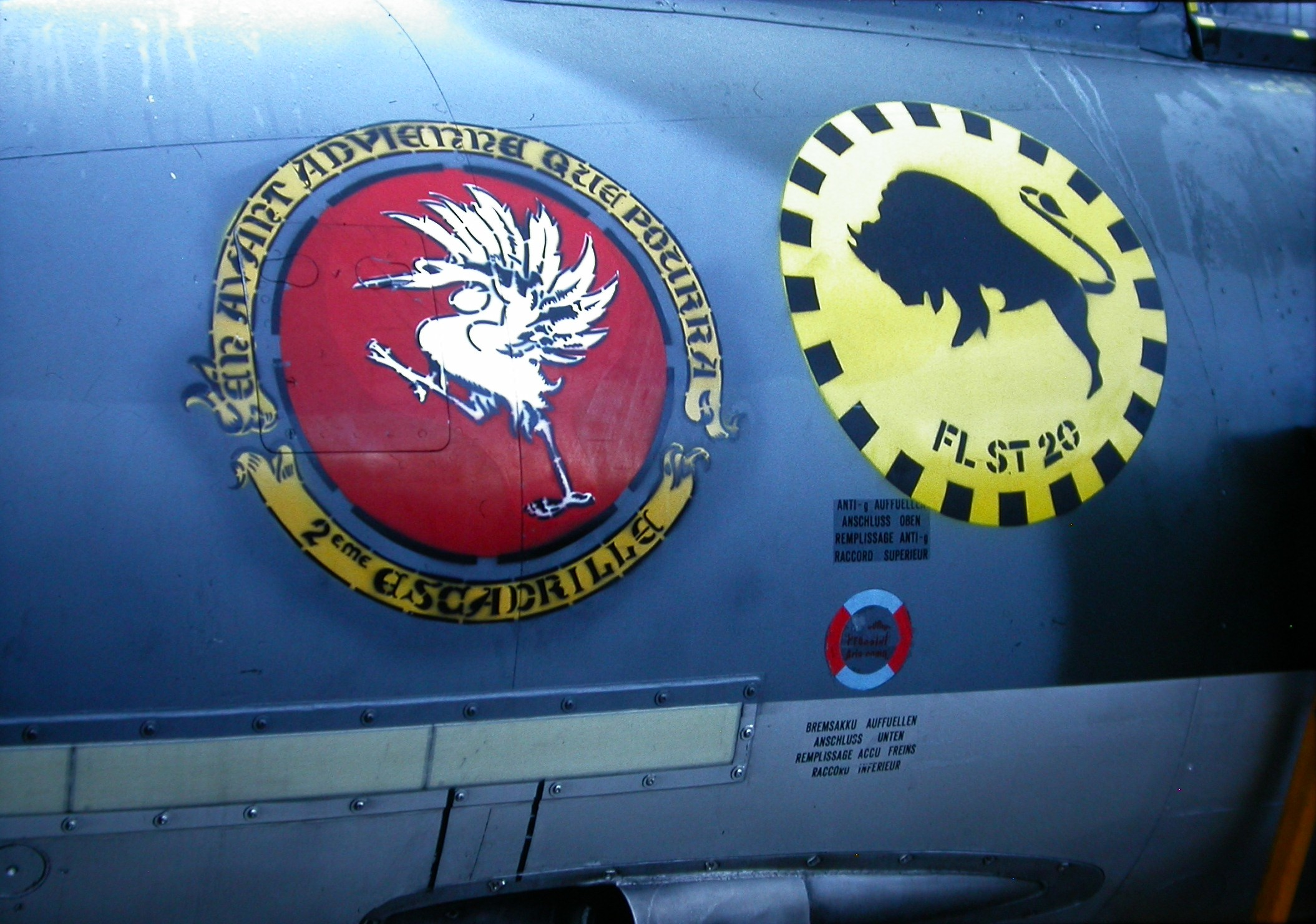 Swiss Air Force Nos 2 and 20 Squadron Emblems